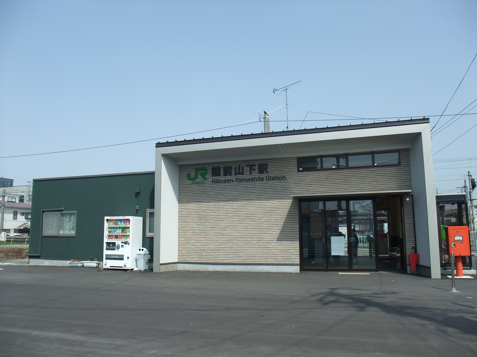 New building of Rikuzen-Yamashita Station